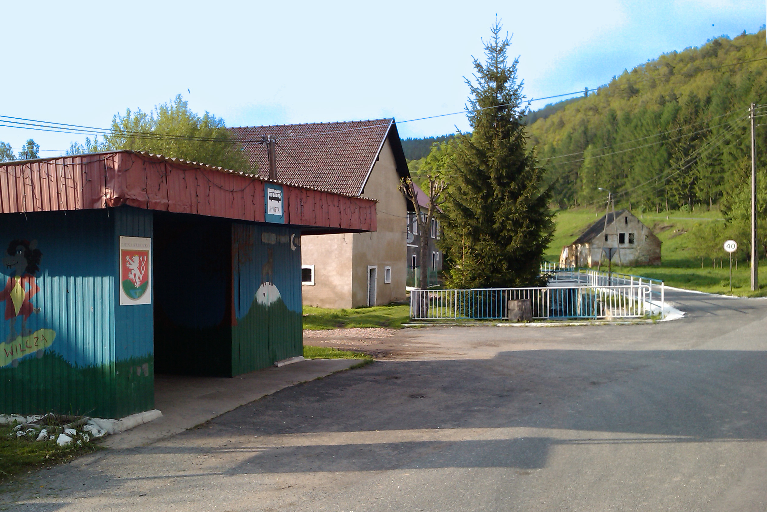 Wilcza village